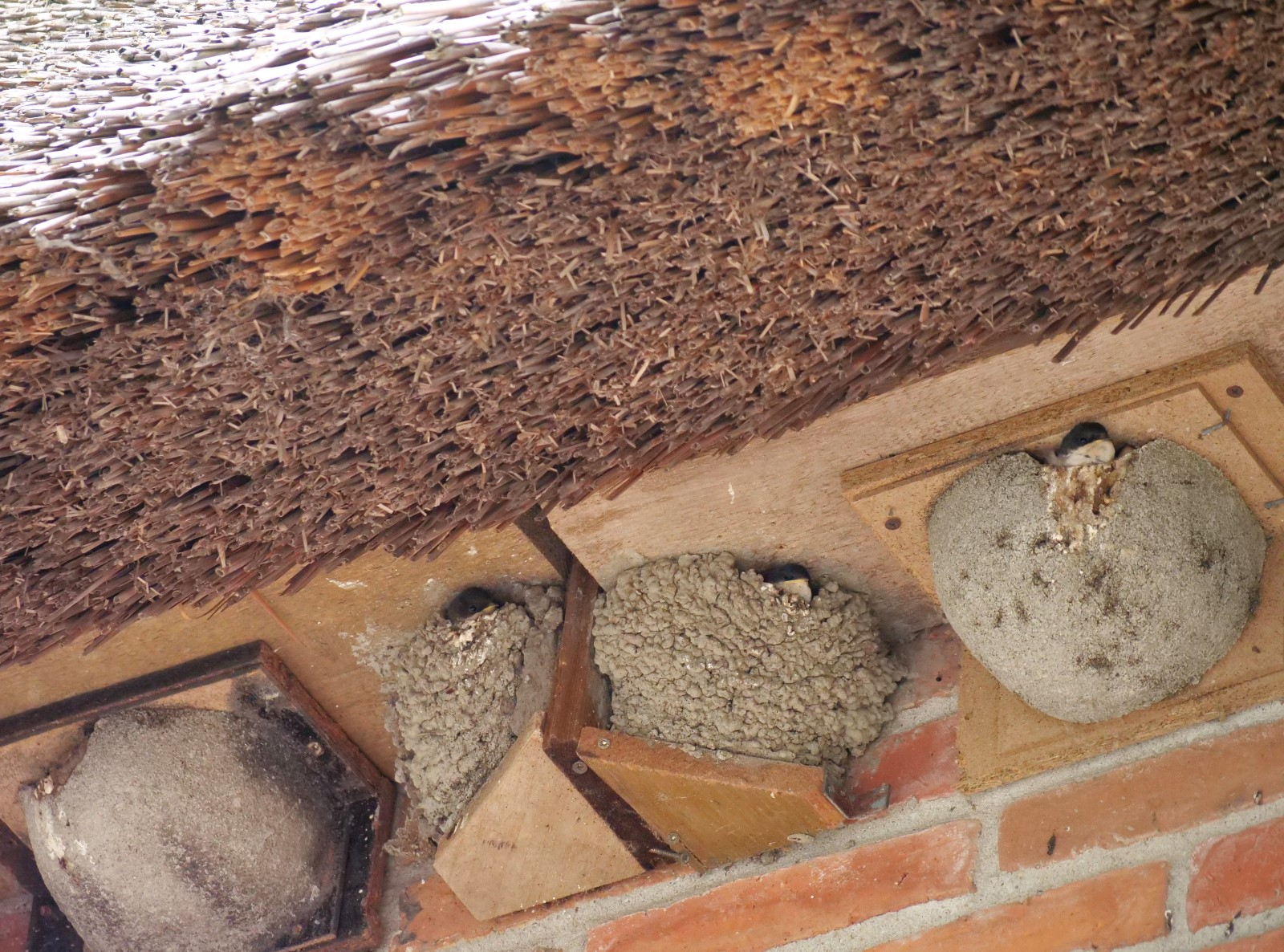 Natural and artifical nests of the Common House Martin; Mehlschwalbe (Delichon urbicum)